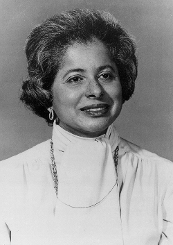 Patricia Roberts Harris (1924–1985)